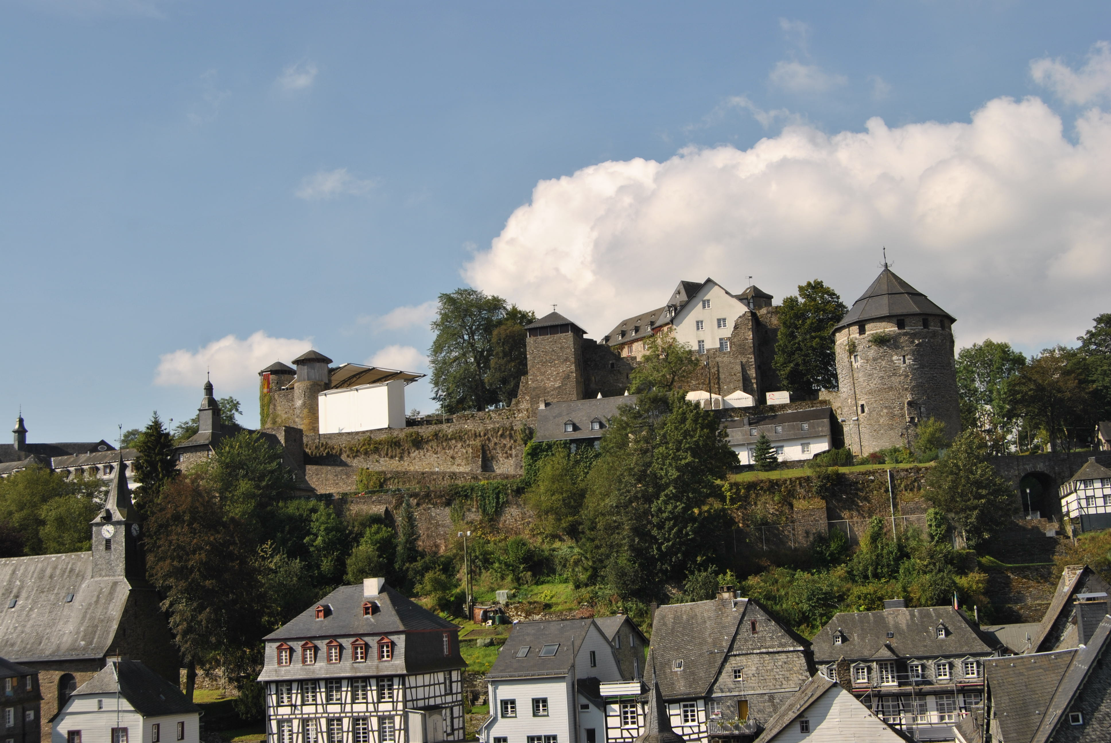 Monschau (North Rhine-Westphalia, Germany) – Monschau Castle – northeast view This image shows a heritage building in Germany, located in the North Rhine-Westphalian city Monschau (no. 12). This photograph was taken with a Nikon D3000